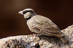 Ashy Crowned Sparrow Lark - male